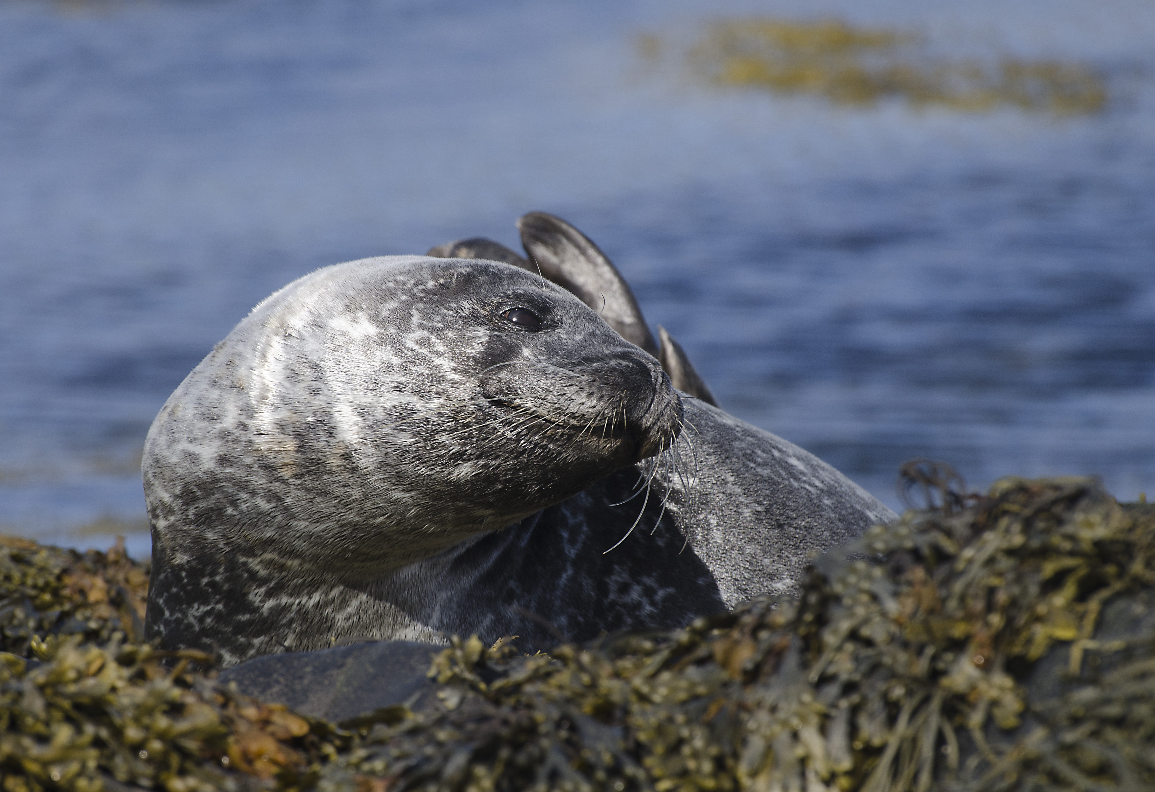 Common seal, Ytri Tunga, Snæfellsbær, Western Iceland